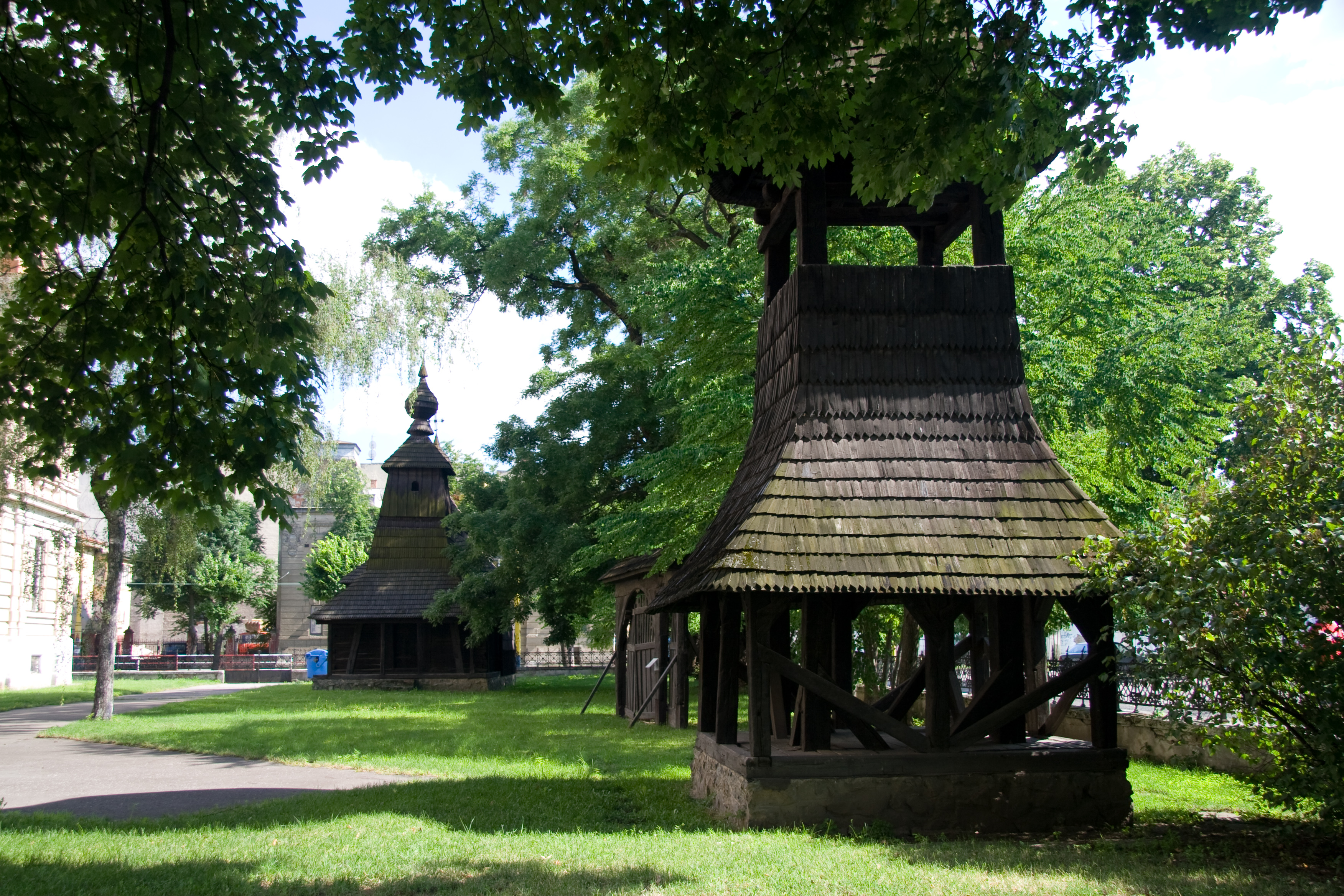 Wooden Church from the village Kožuchovce, now in the East Slovak Museum in Košice, Slovakia